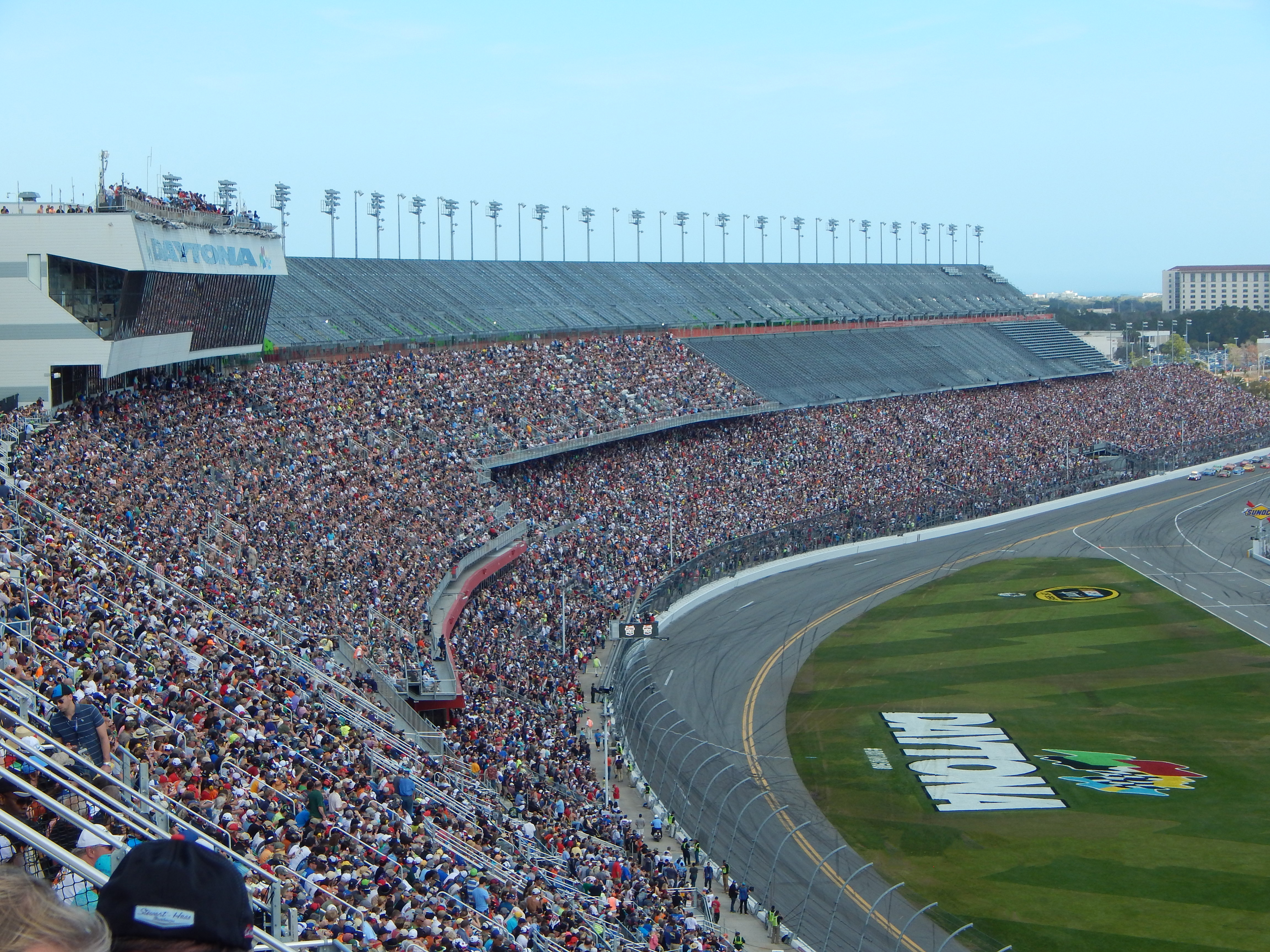 Daytona International Speedway on the day of the 2015 Daytona 500.